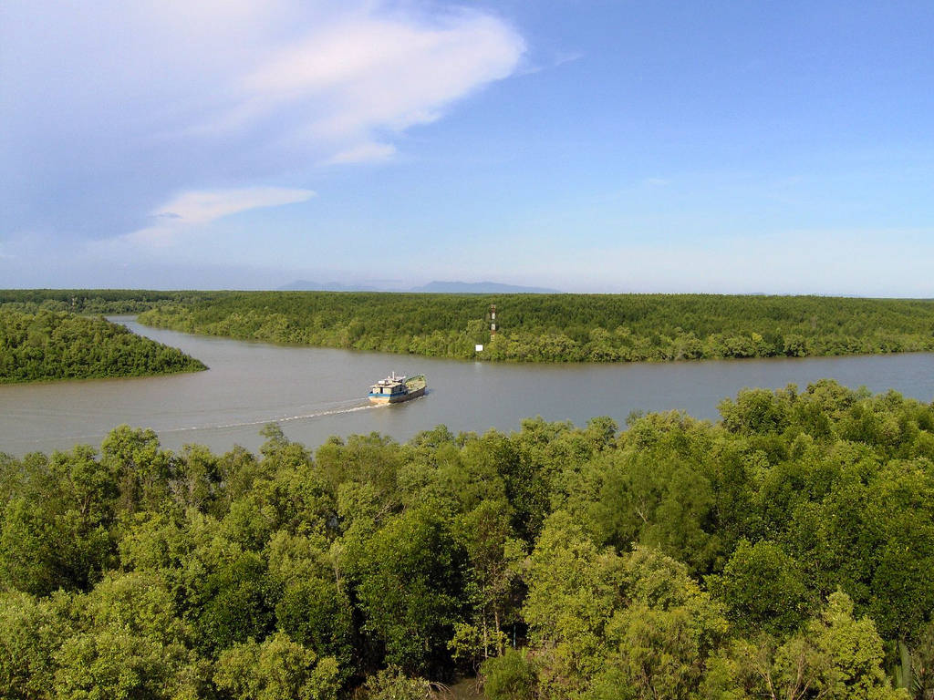 Lò Rèn river, seen from Tang Bong tower in Vàm Sát ecological tourist zone. Far is Bà Rịa-Vũng Tàu.